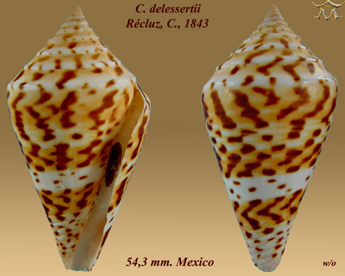 Conasprella delessertii (Récluz, 1843)